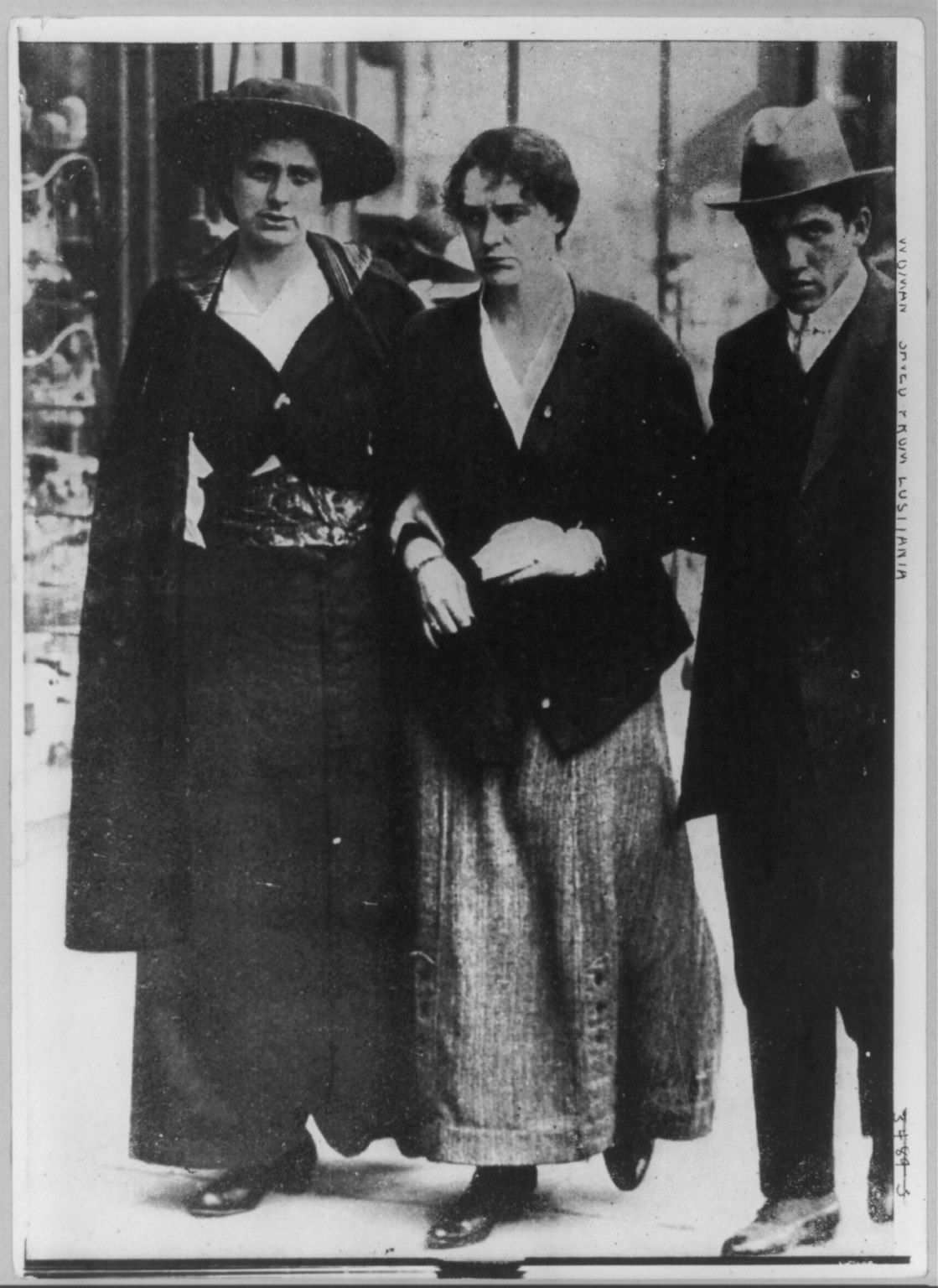 Title: Woman rescued from LUSITANIA, May 25, 1915 Abstract/medium: 1 photomechanical print : halftone.